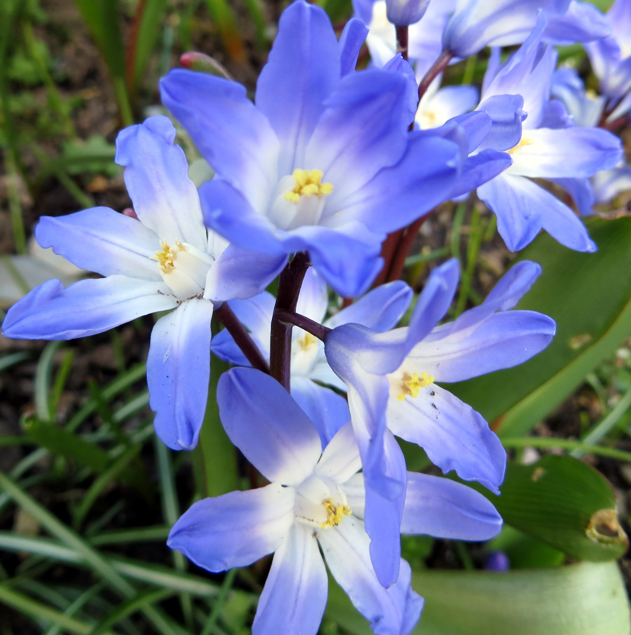 Blue flower macro